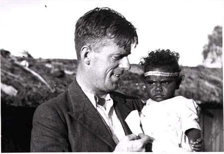 Norman Tindale. Tindale holding a child from Monamona Mission Queensland, 1938. Photo: Dorothy Tindale 1938 South Australian Museum Tindale Collection